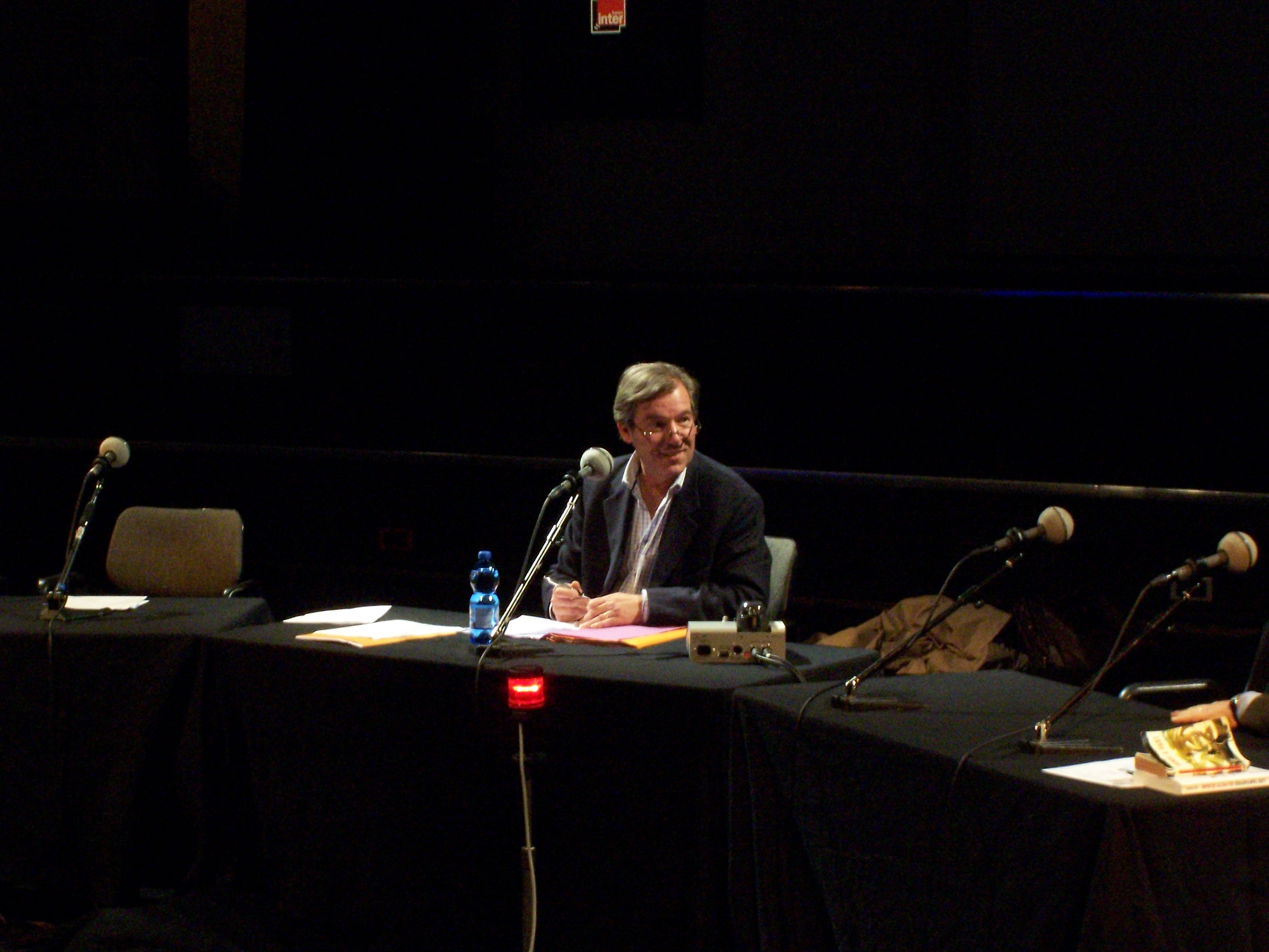 French critic, writer, and showhost Jérôme Garcin before the radio programme Le Masque et la Plume on Nov 15th 2012 (aired on Nov. 25th 2012.